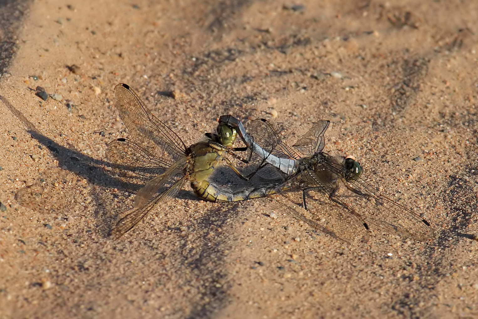 male Black-tailed Skimmer